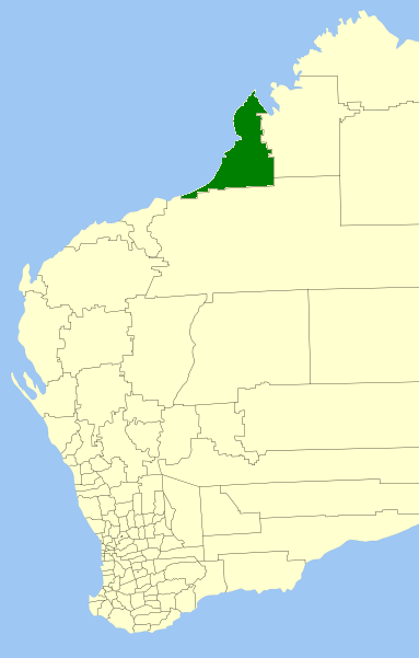 Description=Location of the Local Government Area in Western Australia